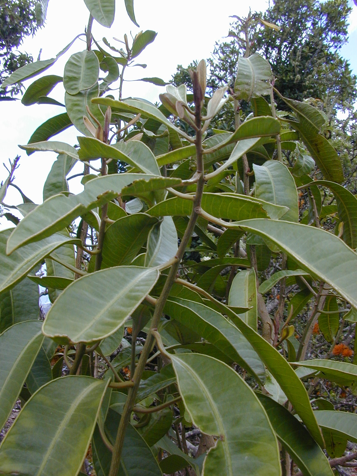 Charpentiera obovata (leaves). Location: Maui, Auwahi